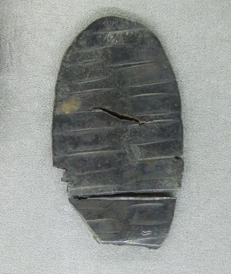 Sekishu Chogin